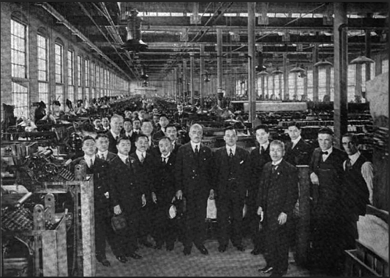 The delegates of the Honorary Commission of the National Association of Raw Silk Industry of Japan, visiting the main mill of William Skinner and Sons in Holyoke, Massachusetts. Although not respectively identified in this image, the delegation would include the likes of Gosuke Imai, a member of the Japanese House of Councillors, and industrialist, Shibusawa Eiichi, the "father of Japanese capitalism".